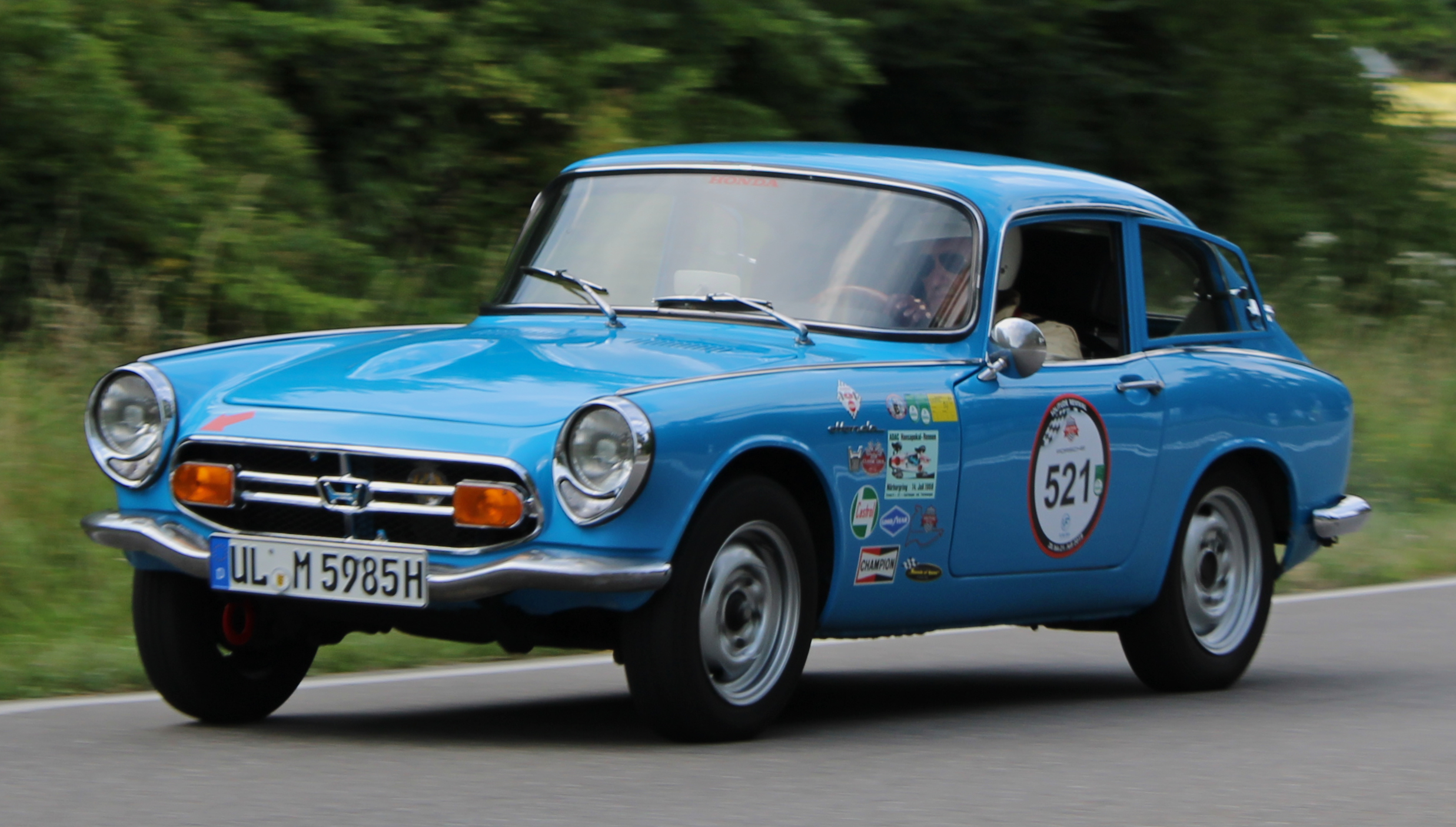 Honda S800 (1969) at Solitude Revival 2019